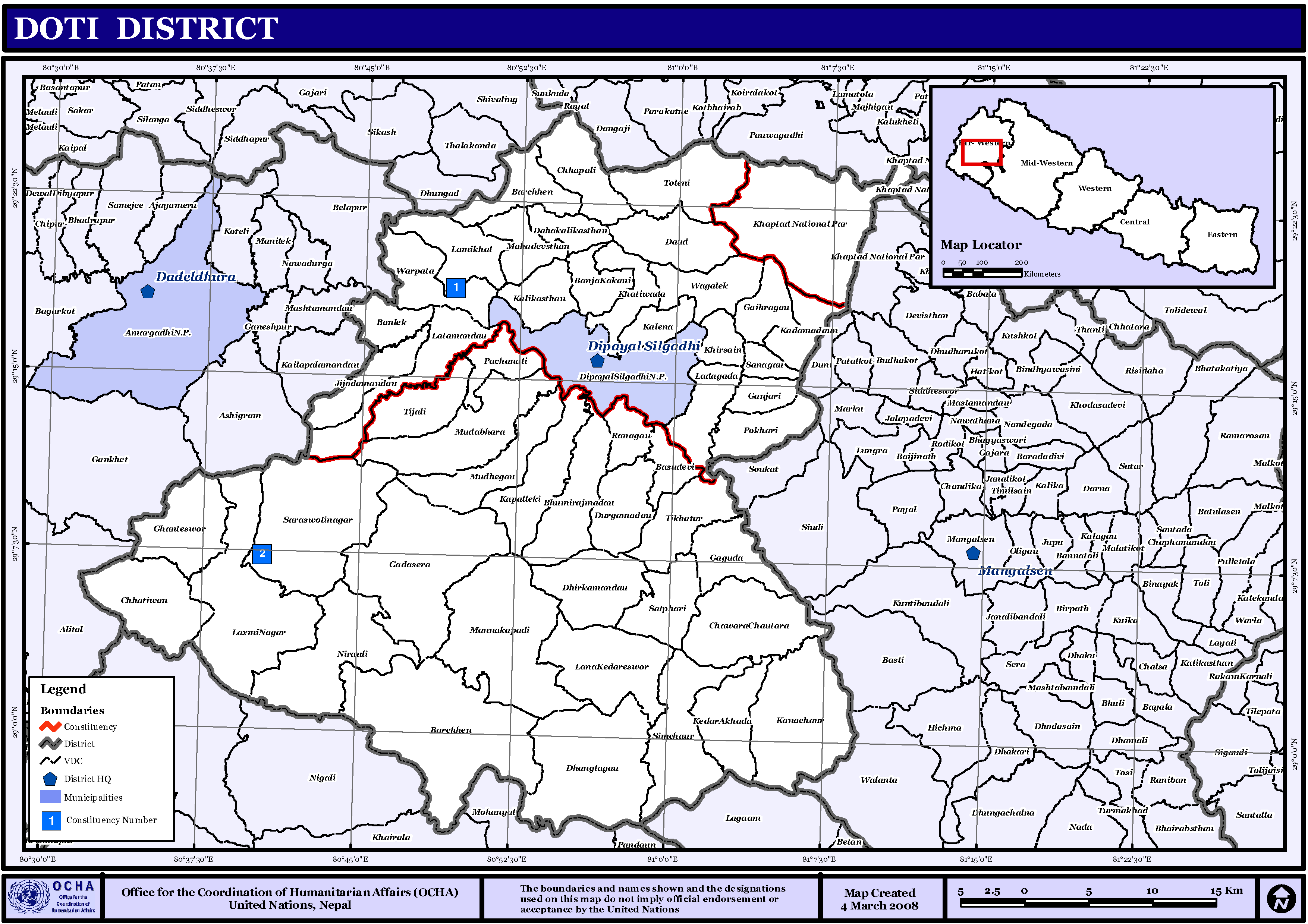 Map displaying Village Development Committees in Doti District, Nepal